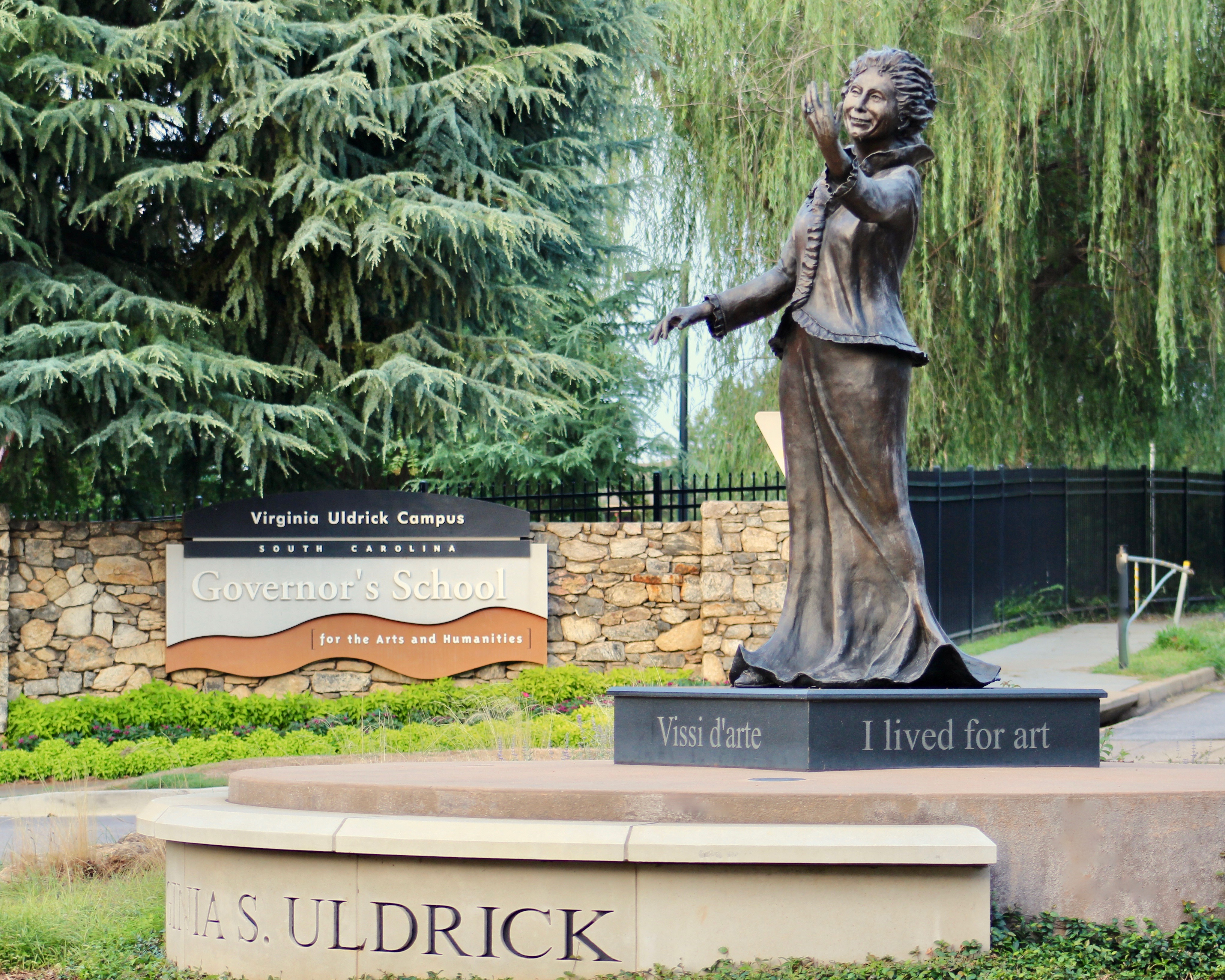 A statue of Virginia S. Uldrick (1929-2017), sculpted by Zan Wells, in Greenville, South Carolina, USA.